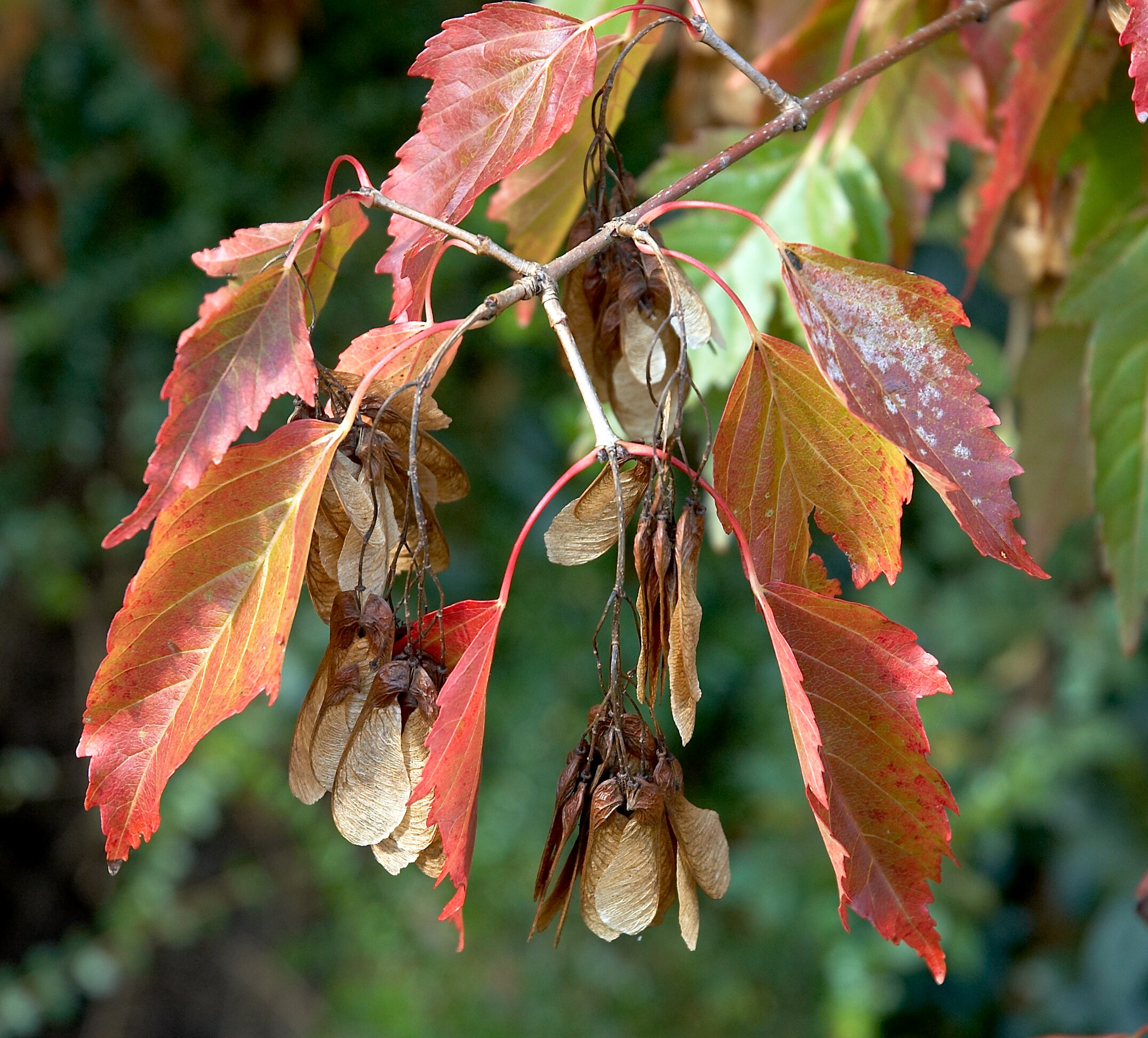 Acer ginnala (syn. Acer tataricum ssp. ginnala)